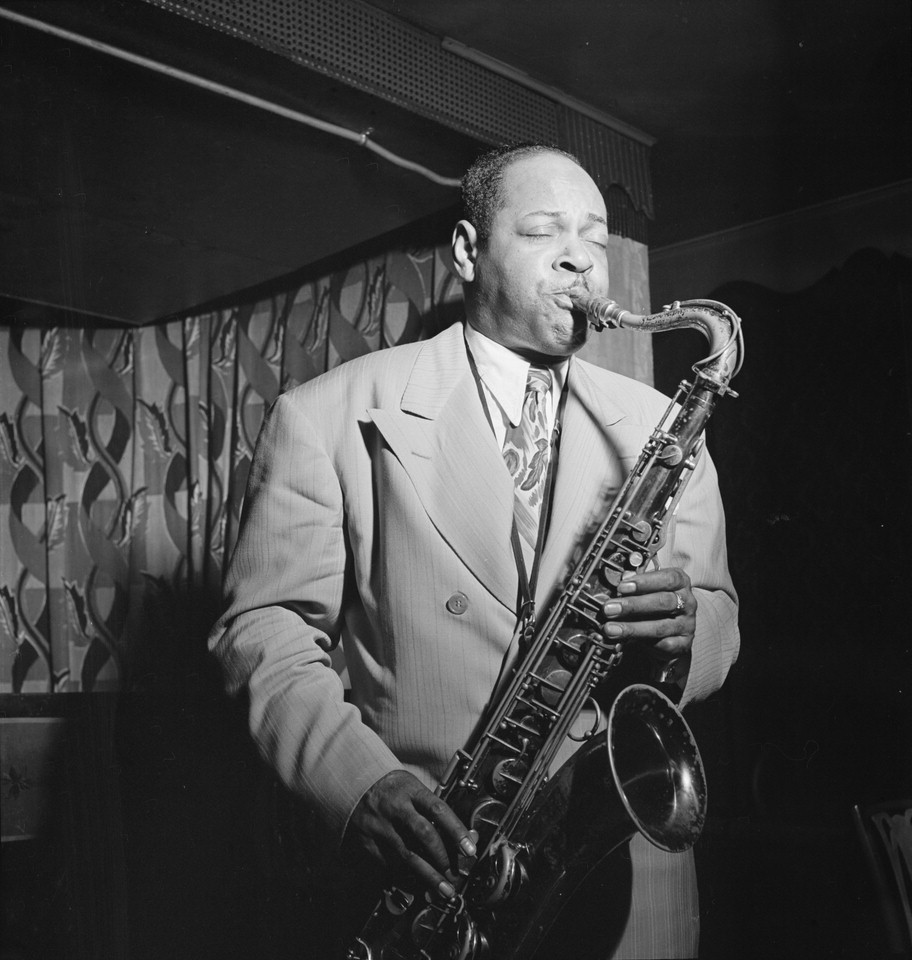 Portrait of Coleman Hawkins, Spotlite (Club), New York, N.Y.